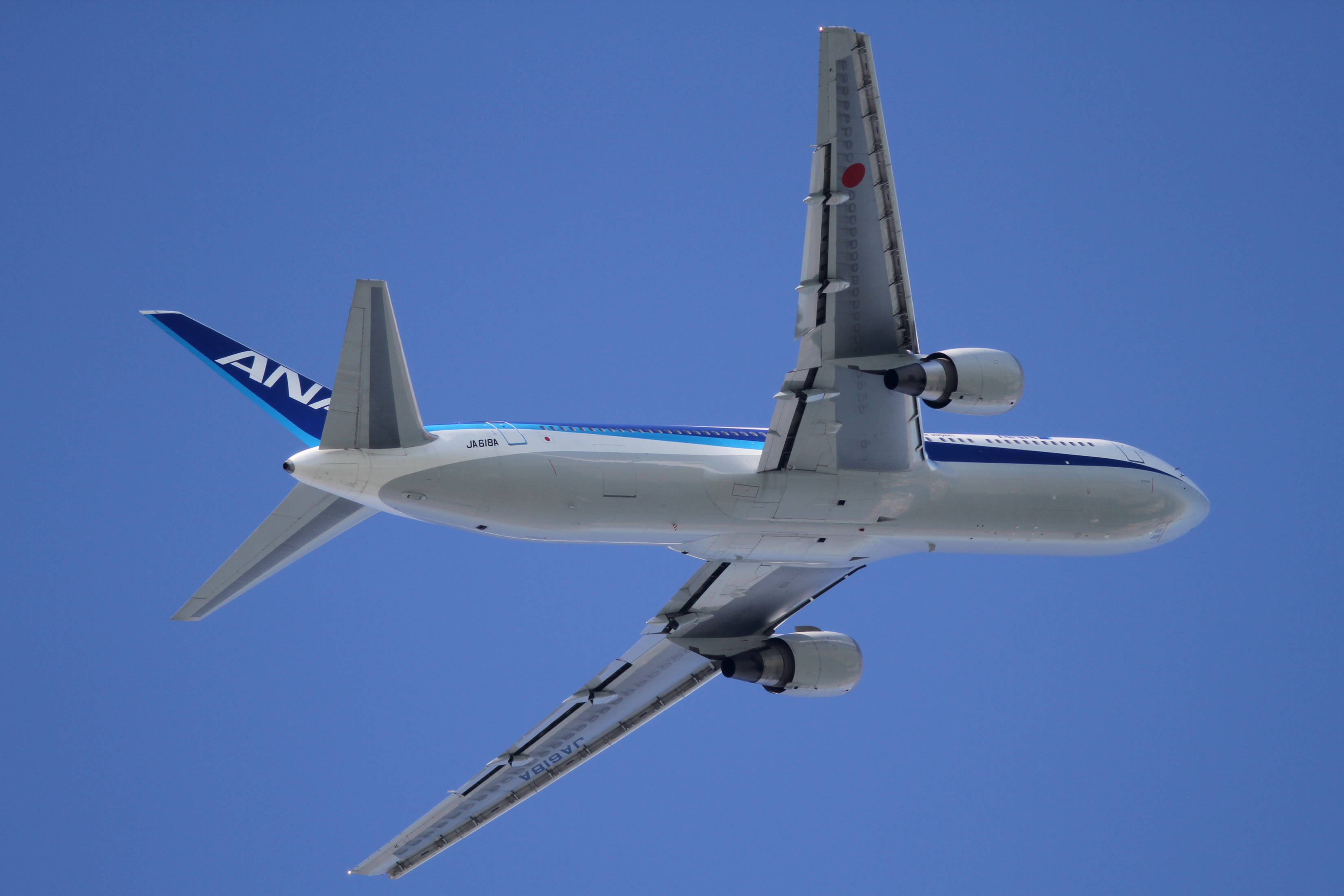 Tokyo International Airport, Boeing 767-381ER, c/n:37720, All Nippon Airways, Operated by Air Japan